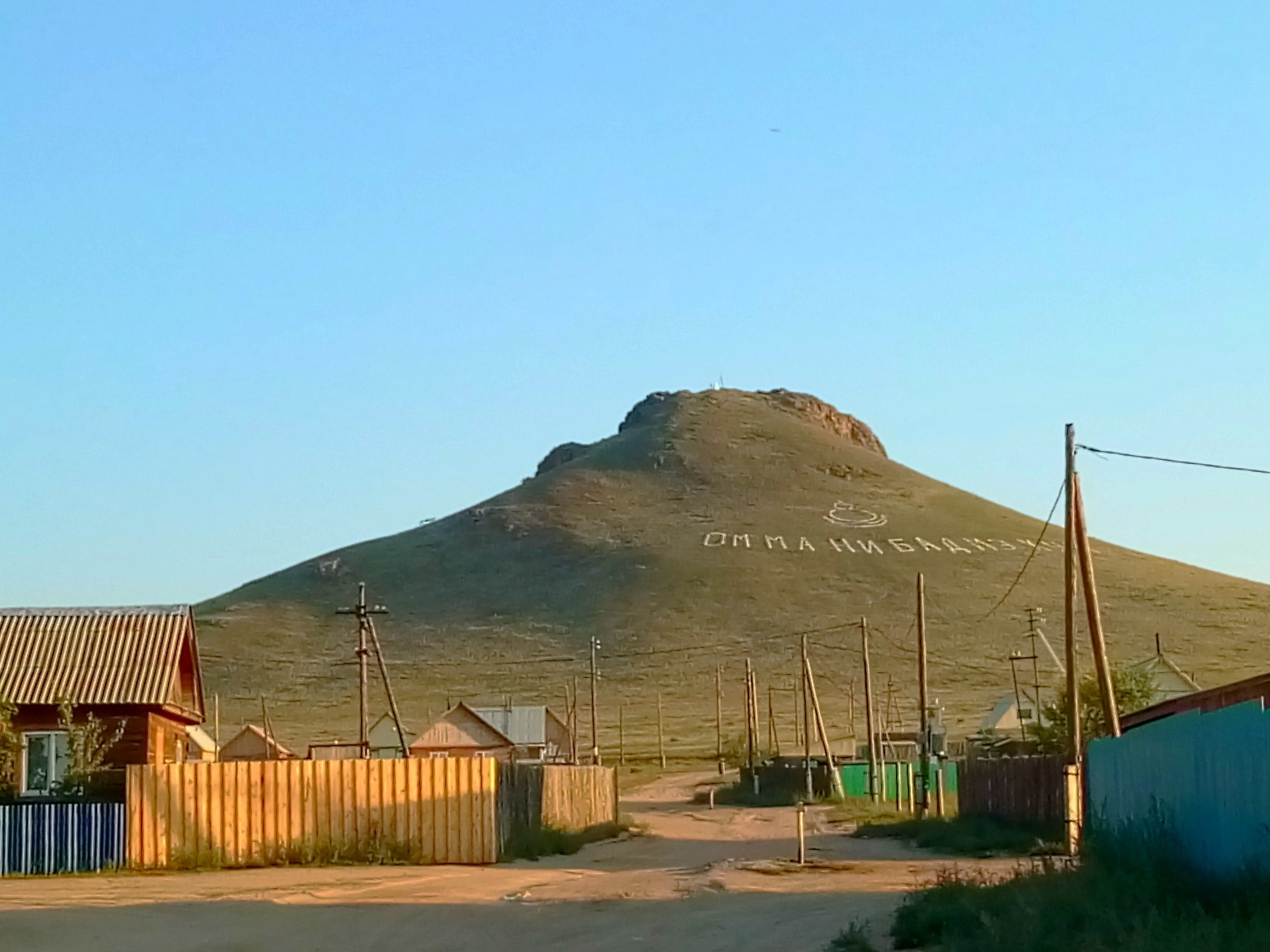 Bayan Togod mountain from eastern outskirts of Ivolginsk